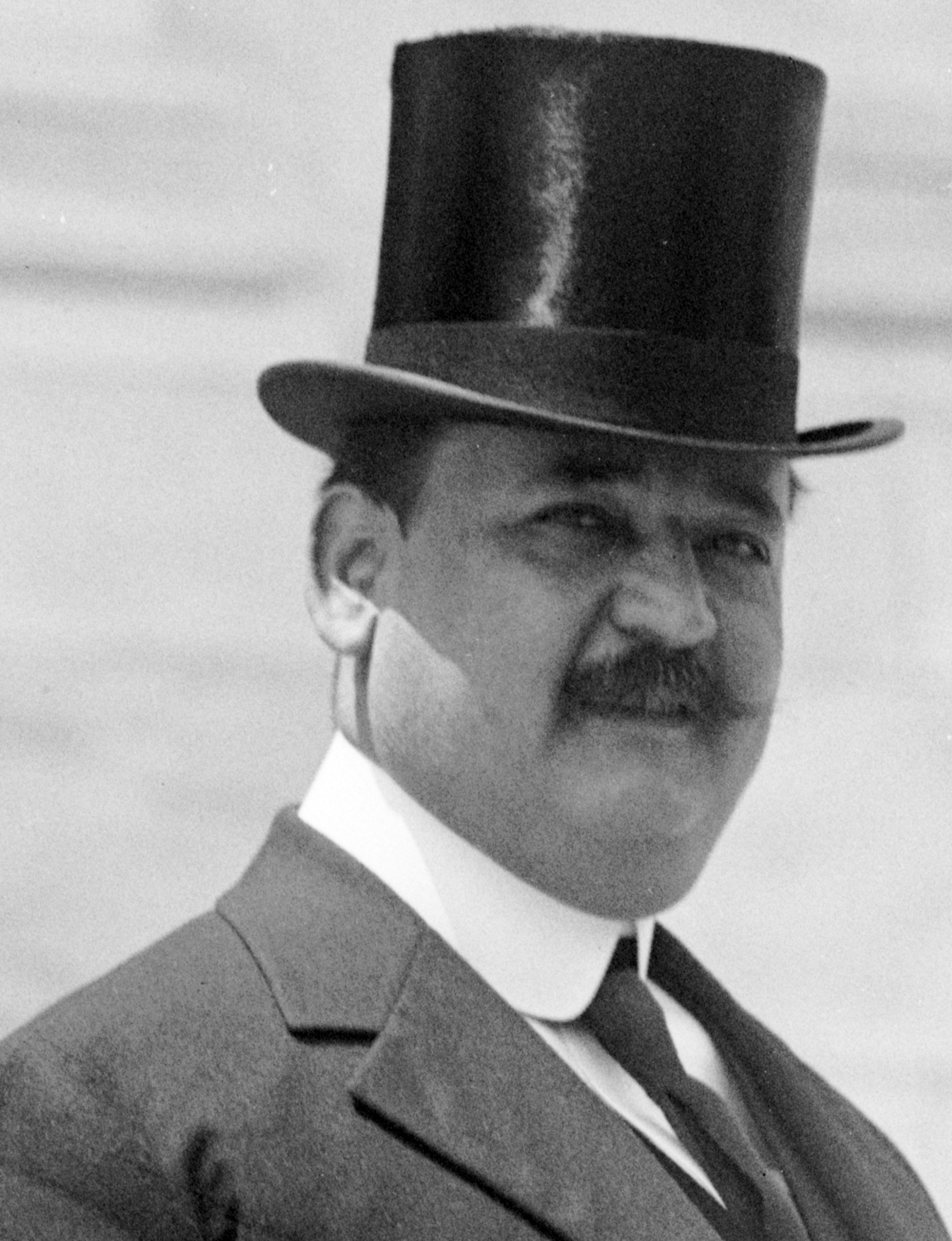 President of El Salvador Alfonso Quiñónez Molina (1874-1950)